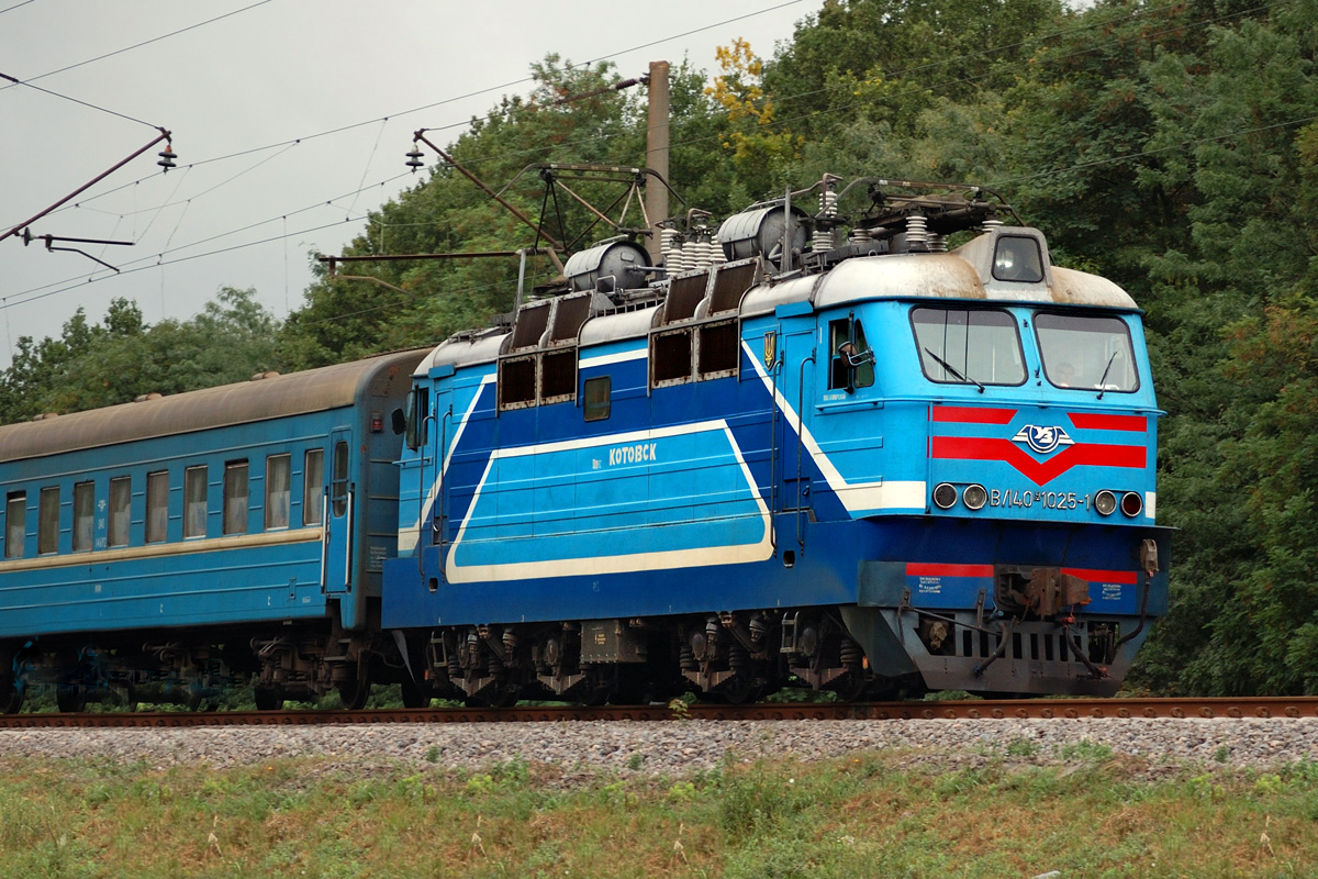 Electric loco VL40U-1025-1, Odesa, Ukraine